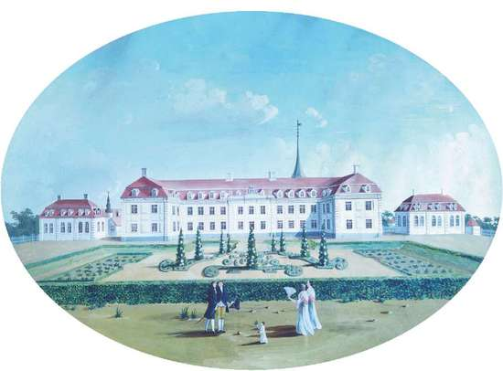 The second Sorø Academy that opened in 1747 in a building designed by Lauritz de Thurah